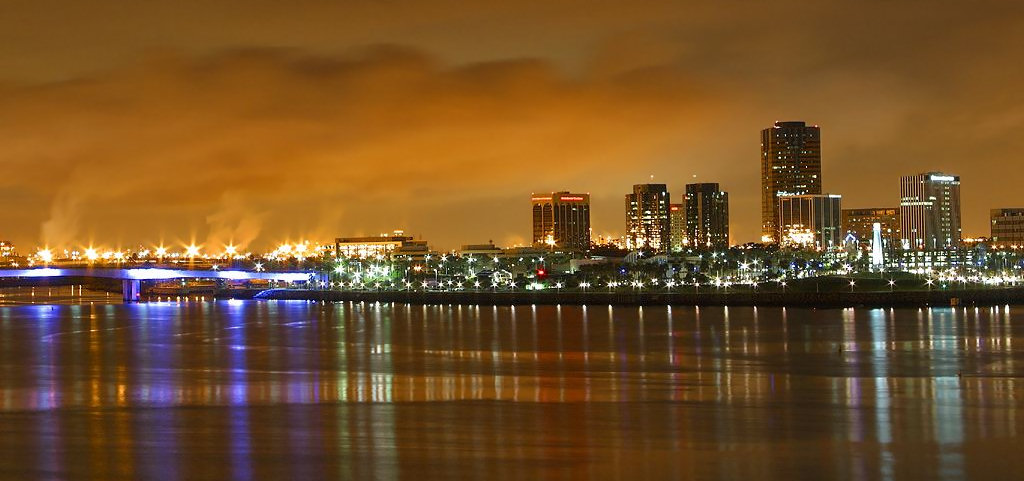 Long Beach, California at night